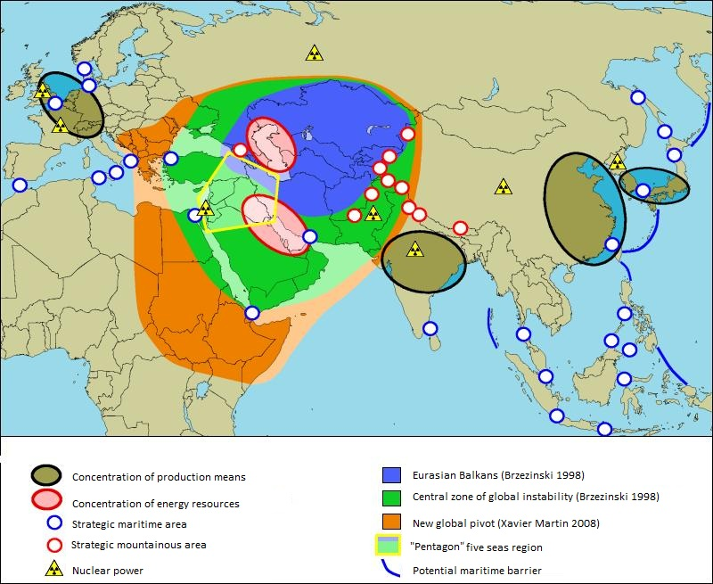 Eurasian Geopolitical map